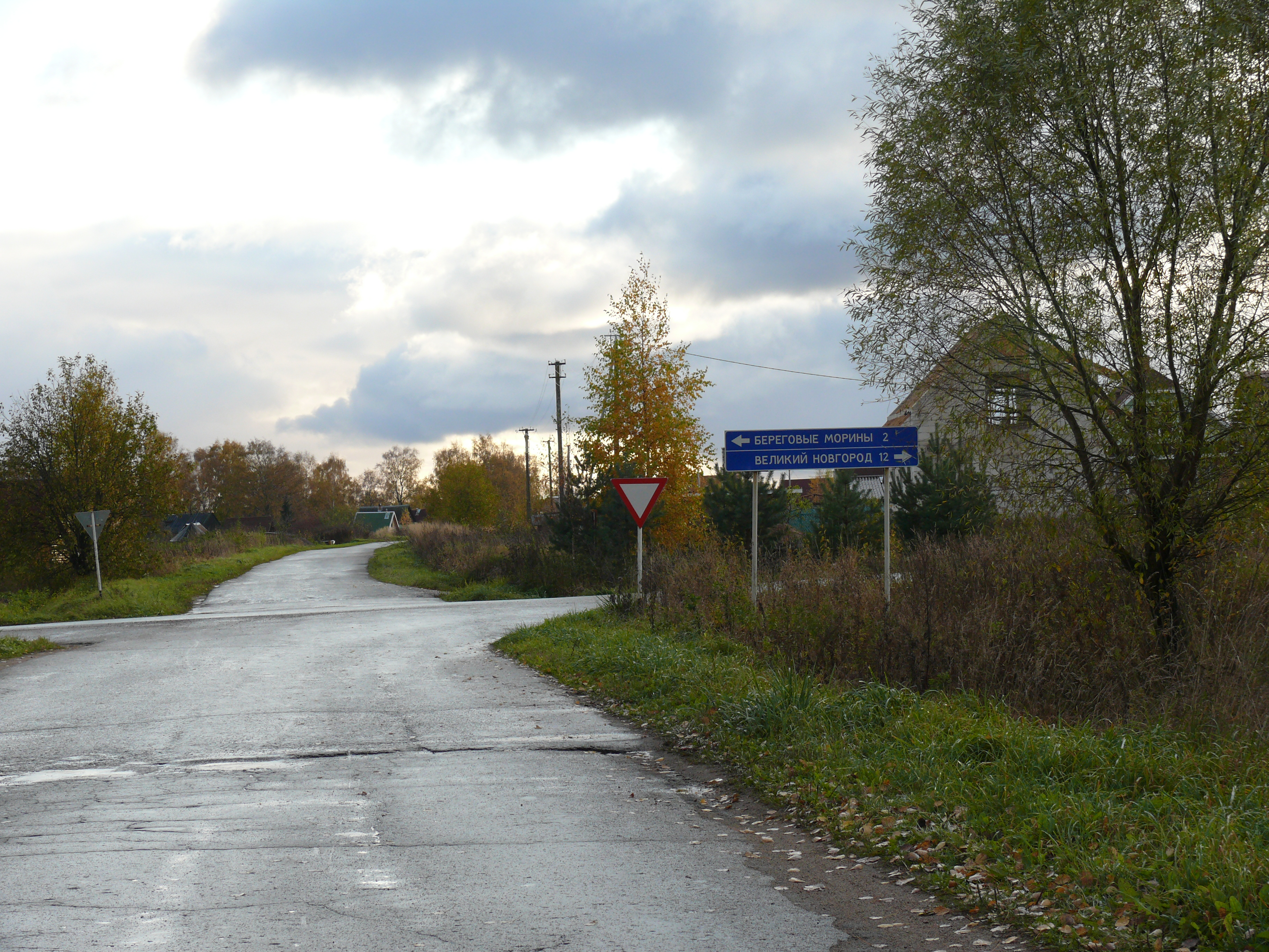 Gornye Moriny village, Novgorodsky district, Novgorod oblast, Russia